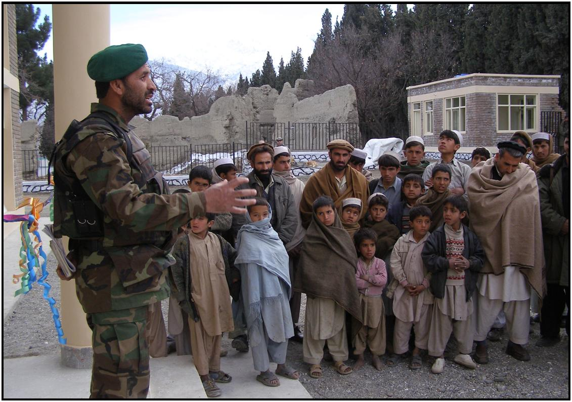 070123-F-0000-001 JALALABAD, Afghanistan – Capt. Hanifullah encourages villagers from Sherzad to support the ANA and the Afghan government at the new district center ribbon-cutting ceremony Jan. 24